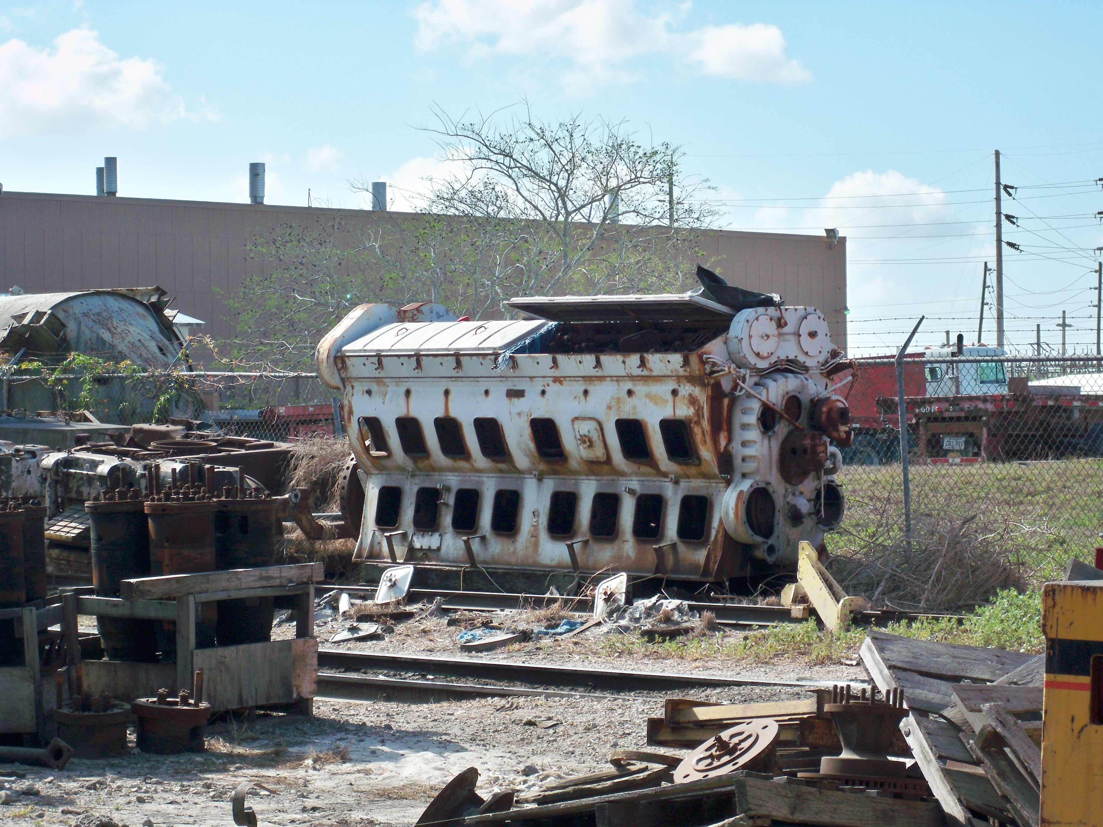 An EMD 16-567A at the Florida Central Railroad's Plymouth, Florida locomotive shops, waiting to be restored and installed.